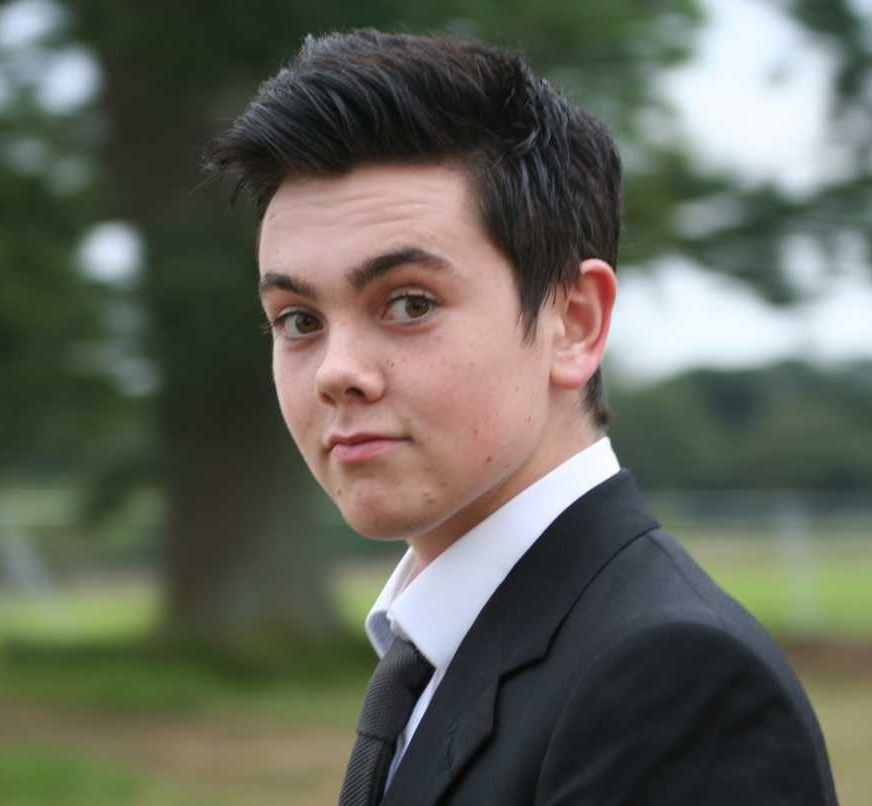 Ray Quinn, Backstage July 2007 Image: Peter French, Flying Tigers Studio